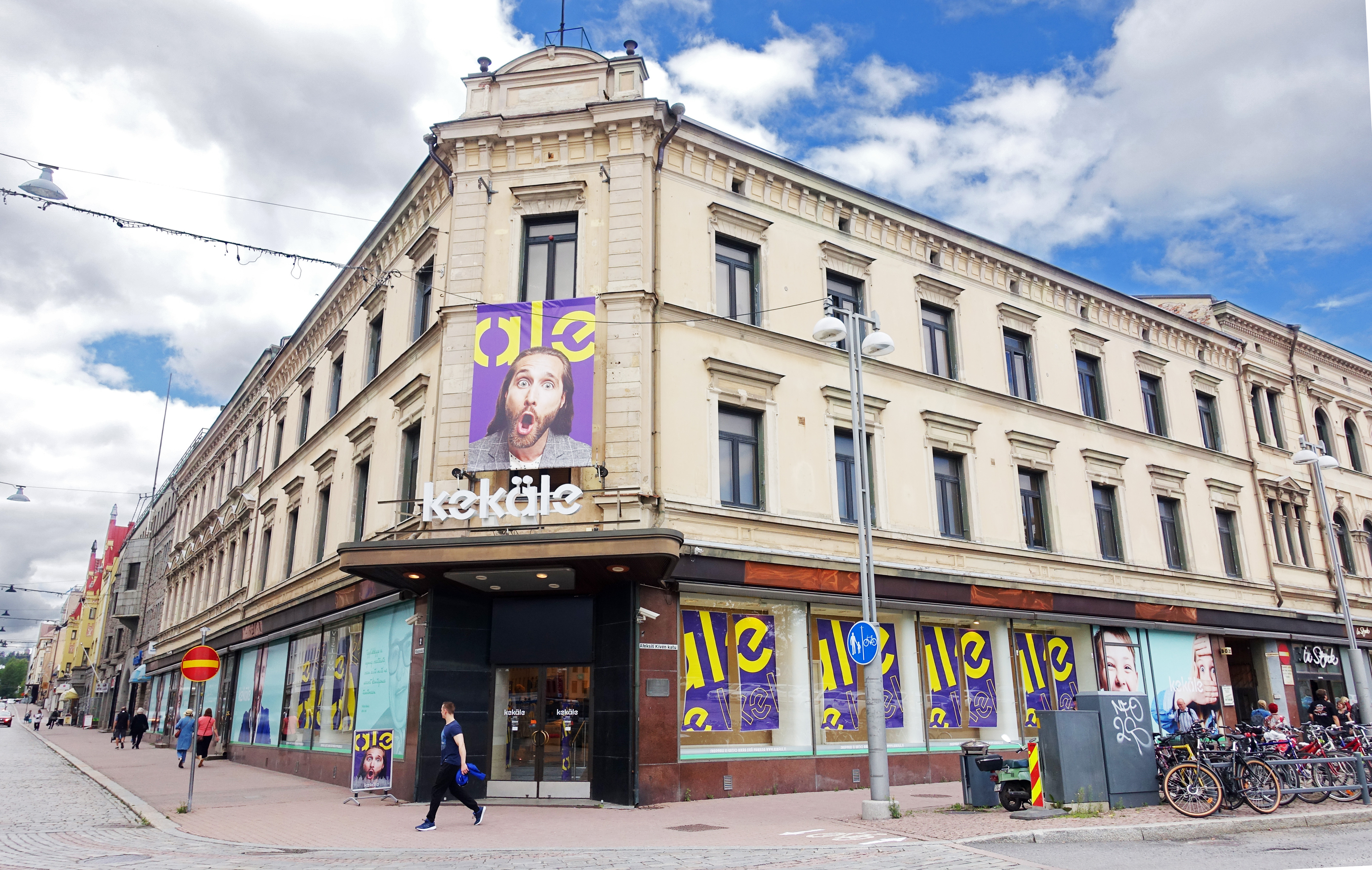 Kauppakatu 2, Tampere, Finland.